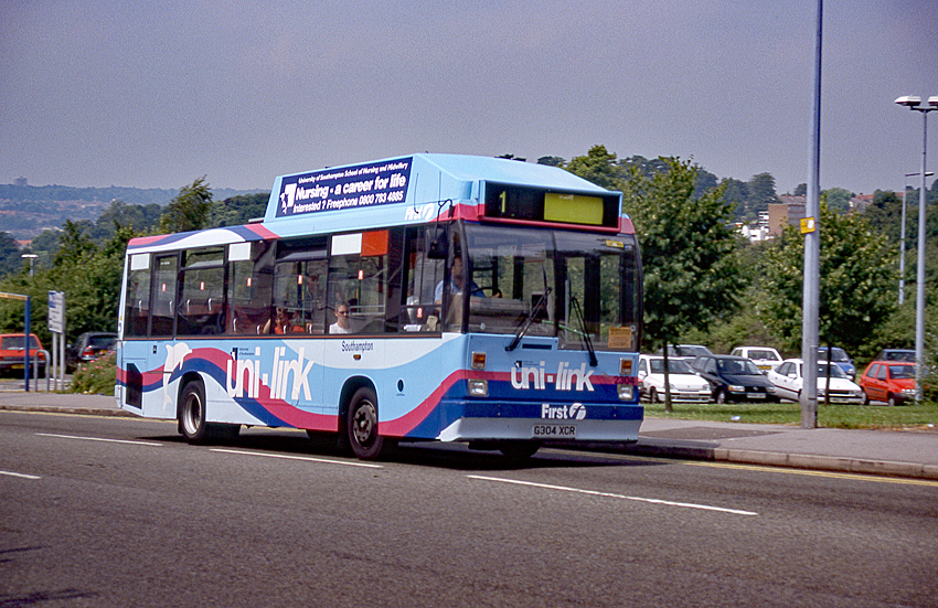 Dennis Dart 9SDL with Carlyle Dartline bodywork, converted to run on Liquified Natural Gas, in First Hampshire "Uni-link" livery, Reg G304 XCR, fleet no 2304. Seen climbing Little Lances Hill in Bitterne, Southampton. Scanned from a Fujichrome 35mm slide.